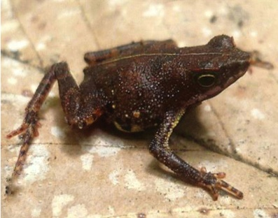 Cropped from File:Amazophrynella diversity.jpg